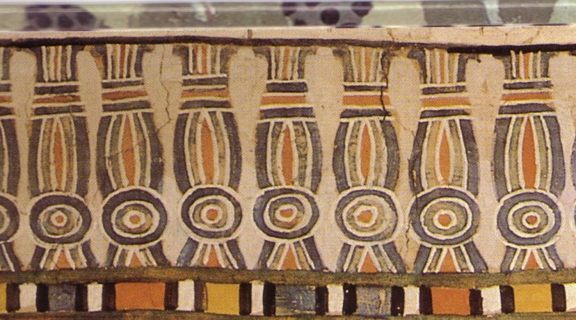 Cheker-frieze in tomb of Sennefer.